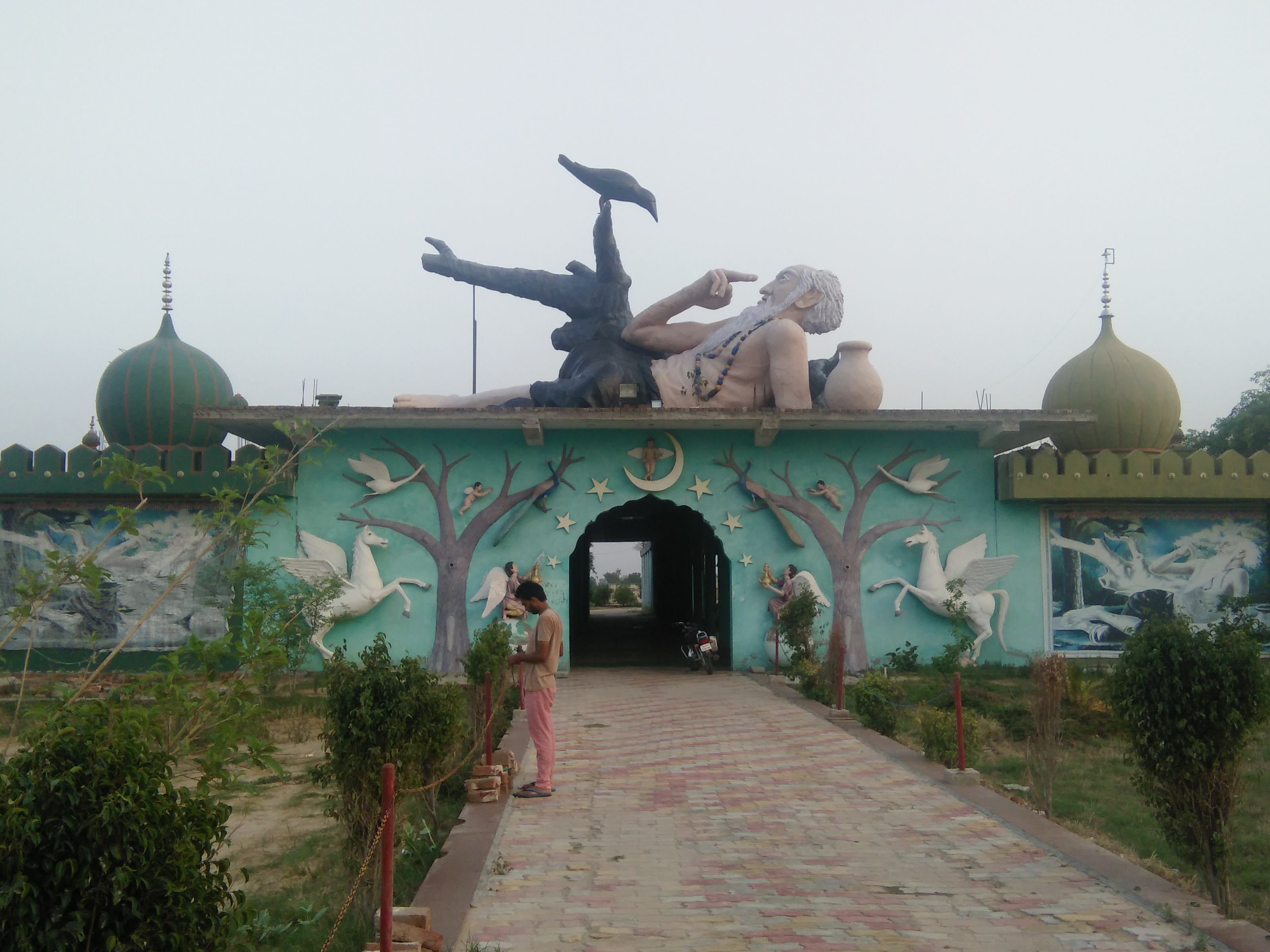 A PLACE OF BABA FARID Sculpture